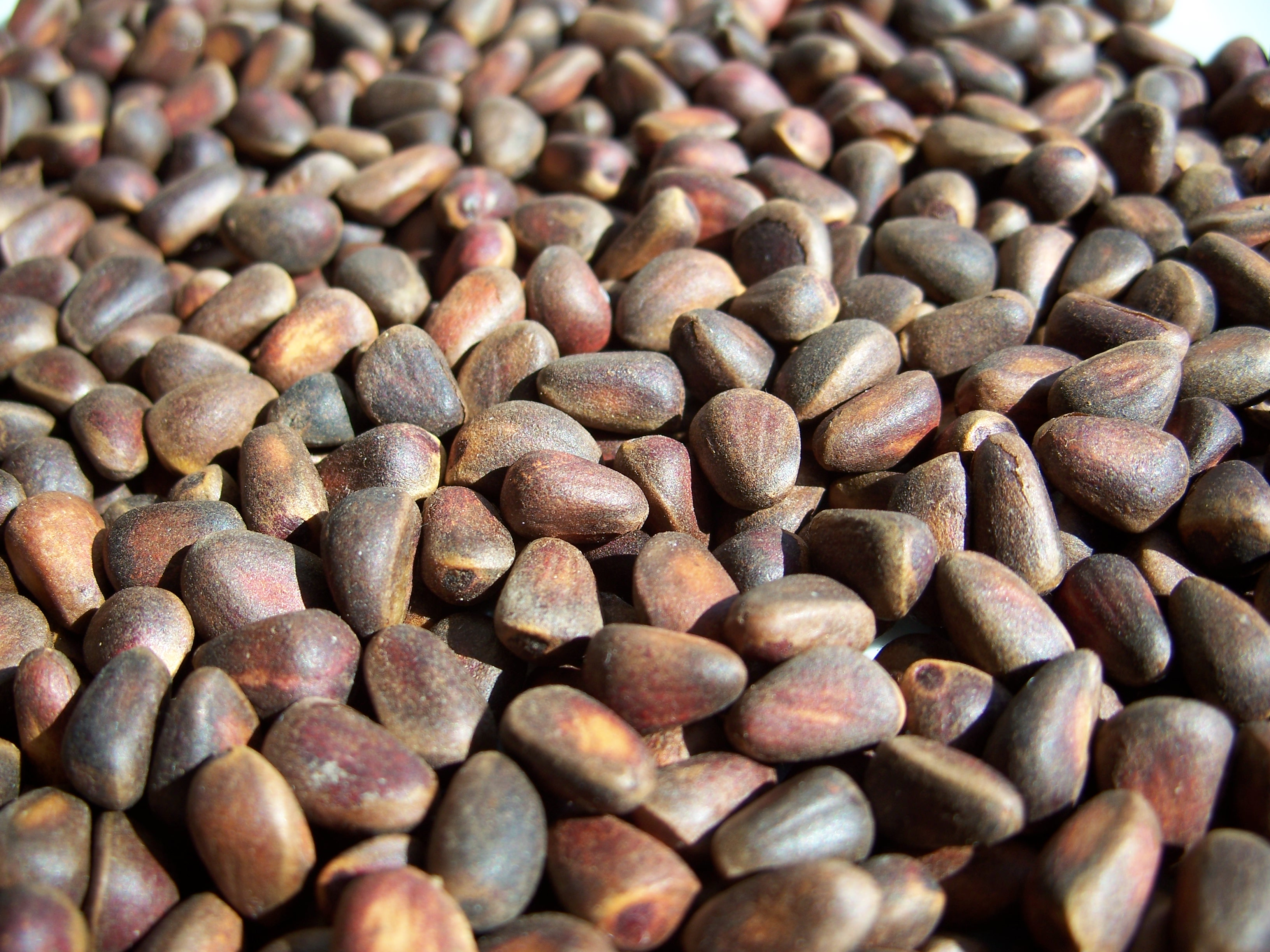 Siberian pine nuts